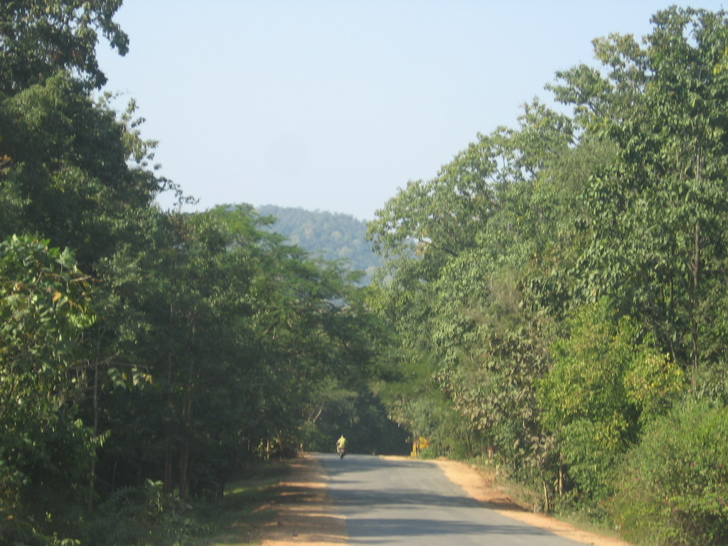 National Highway 43 (India) between Keskal and Kanker